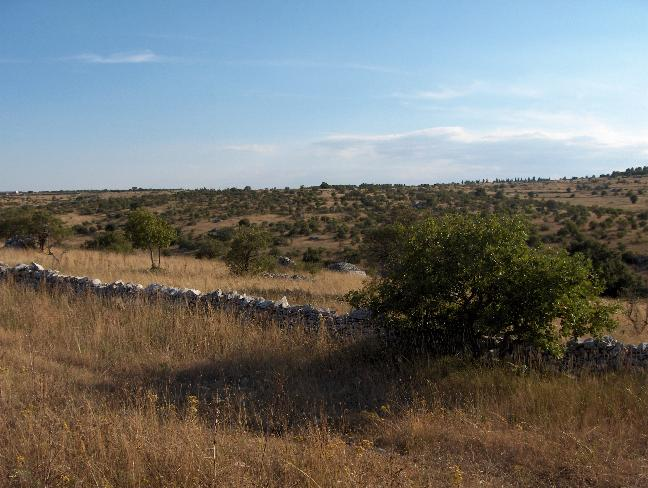 Altopiano delle Murge (zona Castel del Monte)